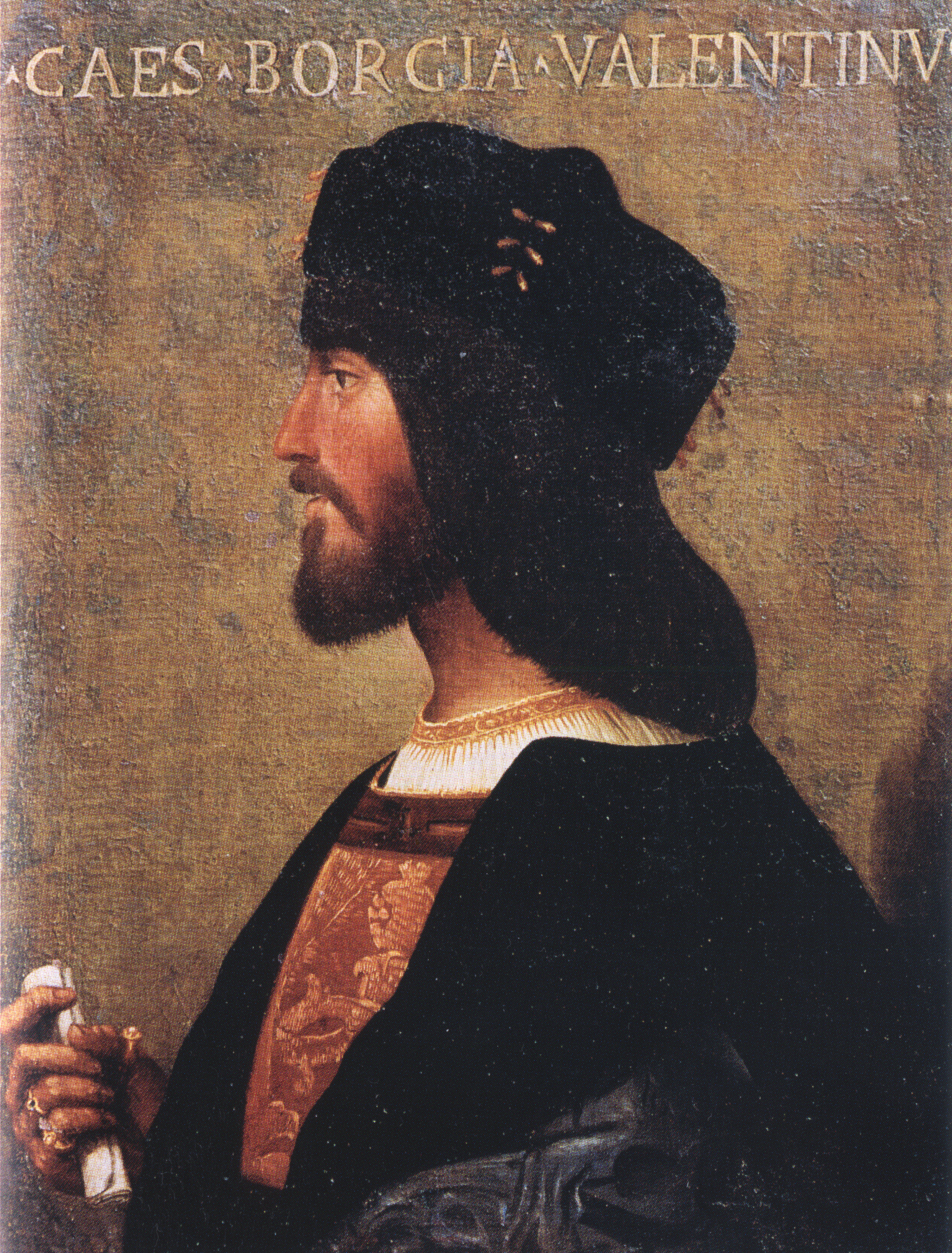 Believed to possibly be a copy of an original contemporary portrait painting of Bartolomeo Veneto